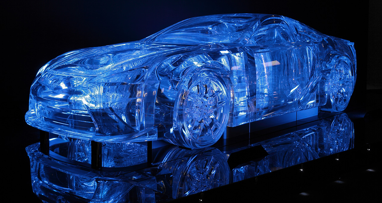 Lexus Crystallised Wind (Crystalic objet of Lexus LFA).